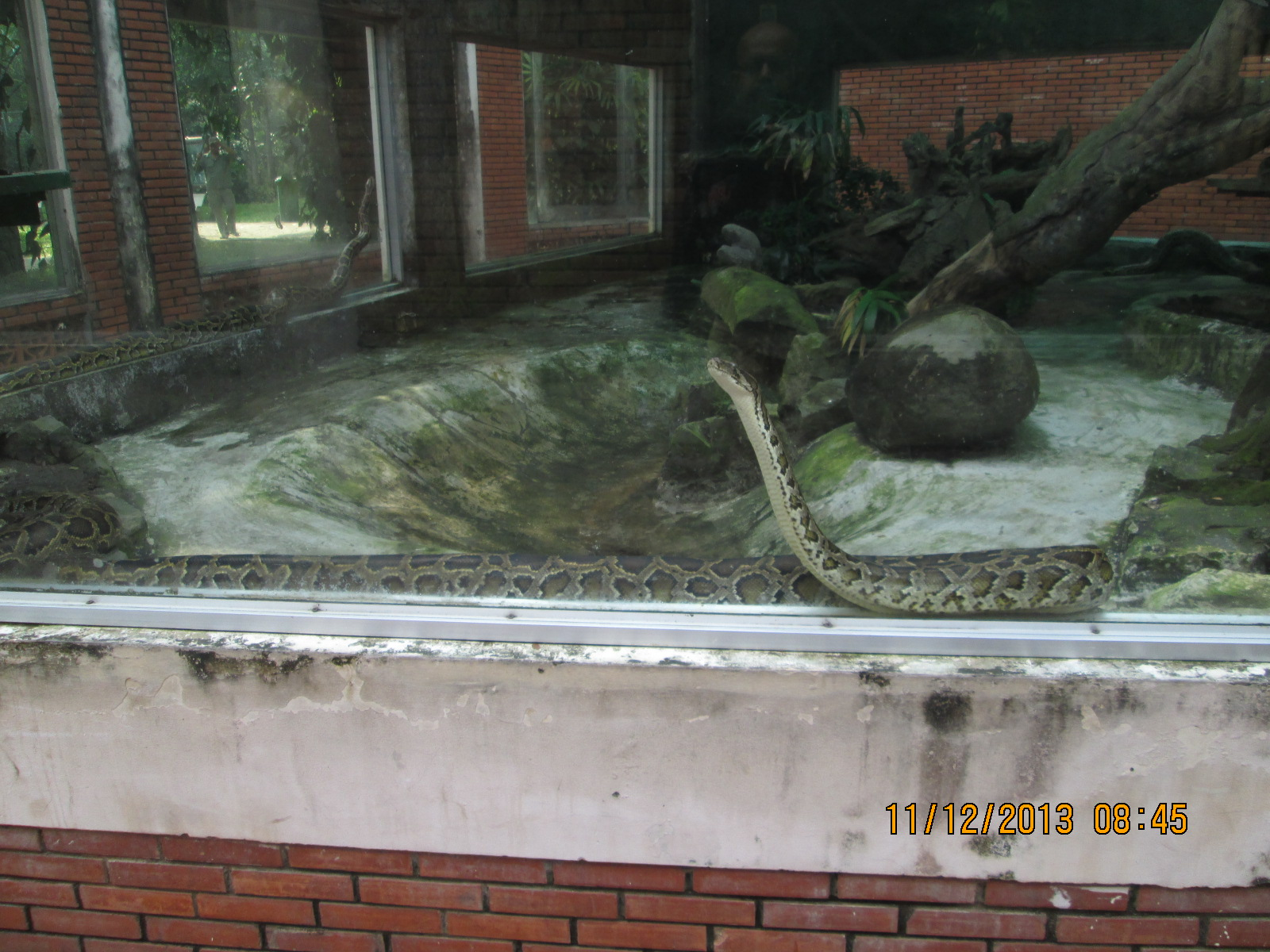 This pair of pythons were very active in their enclosure,. Rare sight as Pythons are normally sluggish during the day.